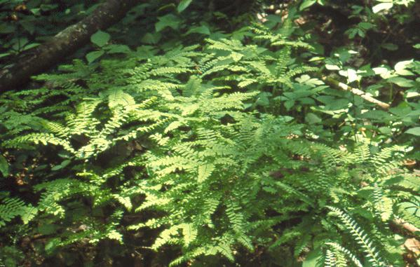 Adiantum pedatum, five-finger fern, Hawk Woods, Athens, Ohio